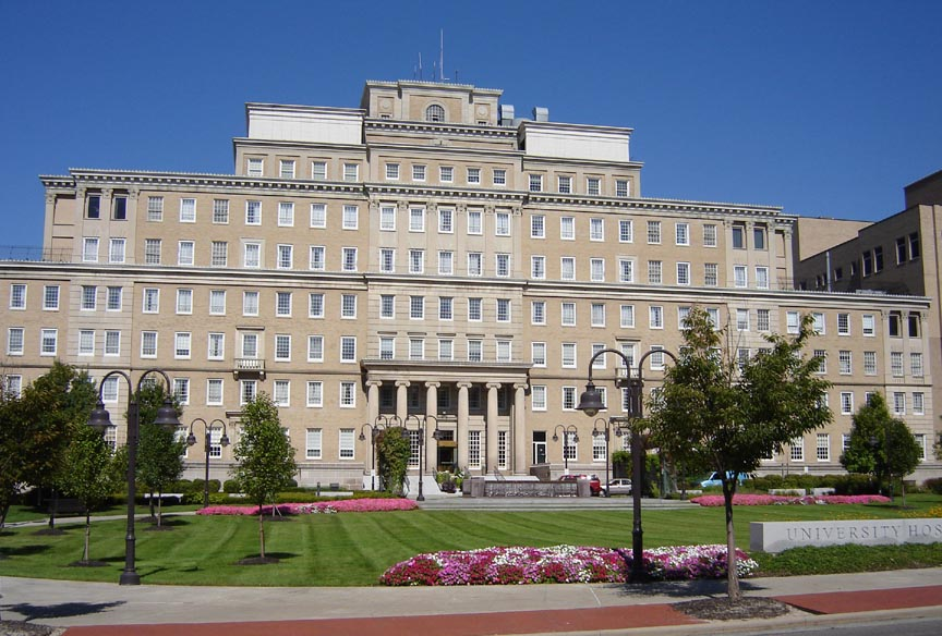 Cleveland University Hospital, Cleveland.